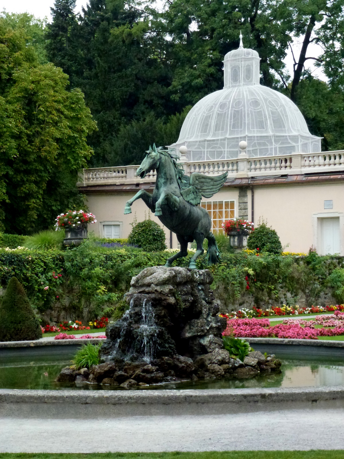 Pegasusbrunnen (Salzburg)